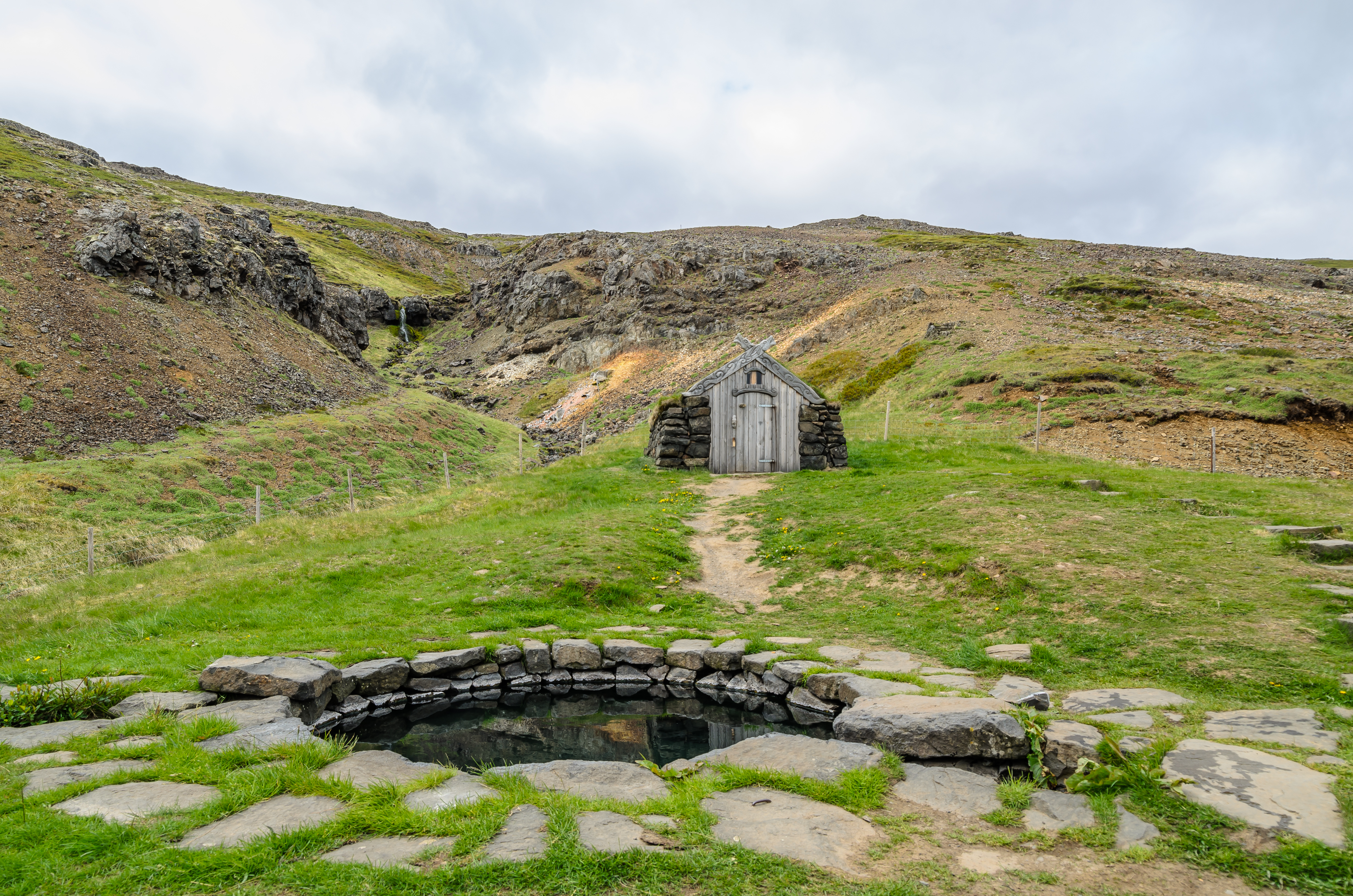 The Guðrúnarlaug geothermal pool in Iceland